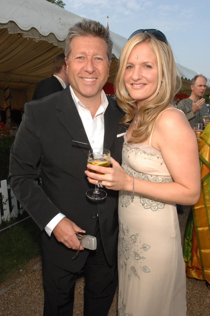 Neil Fox at the 2007 ChildLine polo day at Ham Polo Club, London.